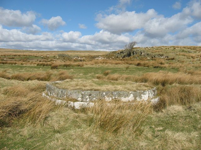 Roman tomb at Petty Knowes For more information, . Lamb crag is in the background. The course of Dere Street Roman Road runs from left to right across the centre of the photo.